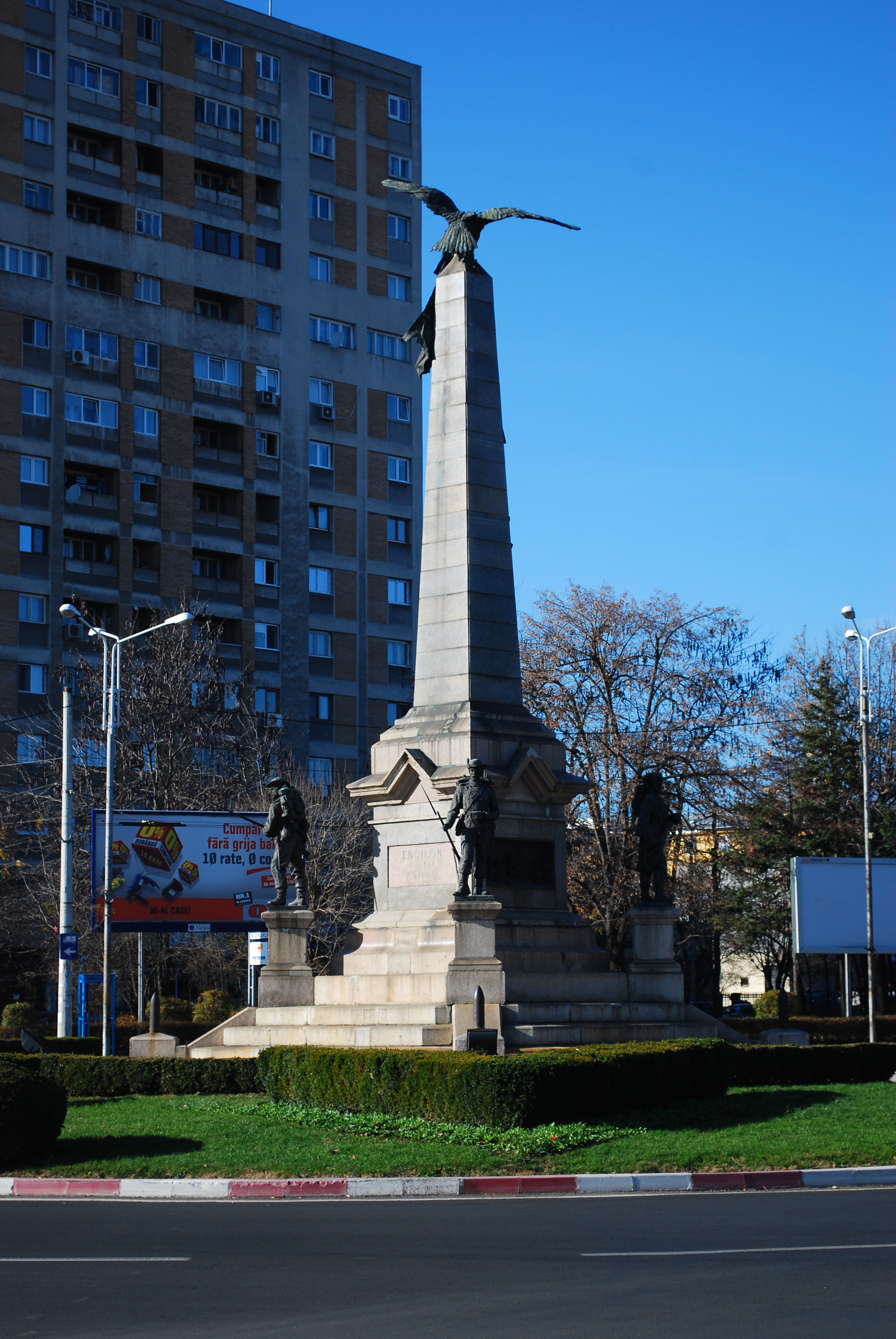 War of Independence monument near Gara de Sud, Ploieşti, RomaniaRomână: Monumentul Vânătorilor din Războiul de Independenţă, de la Gara de Sud, Ploieşti, România